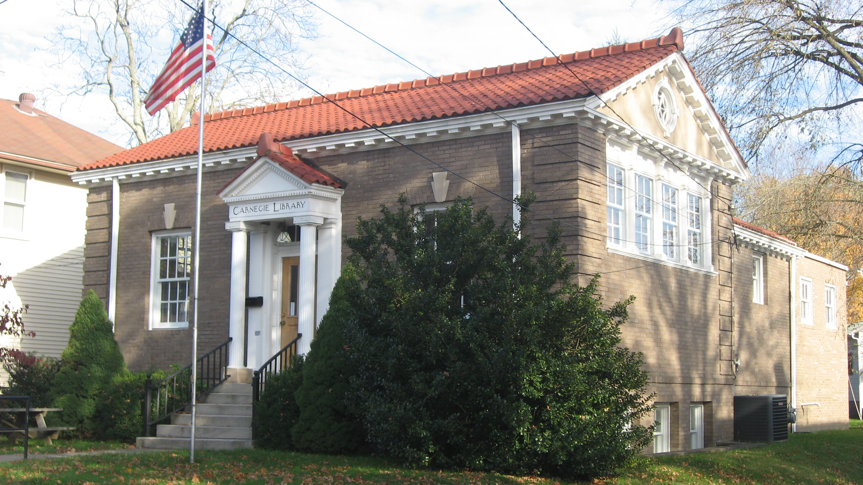 Front and southern side of the Middleport Public Library, located at 178 S. Third Avenue in Middleport, Ohio, United States. Built in 1912, it is listed on the National Register of Historic Places.